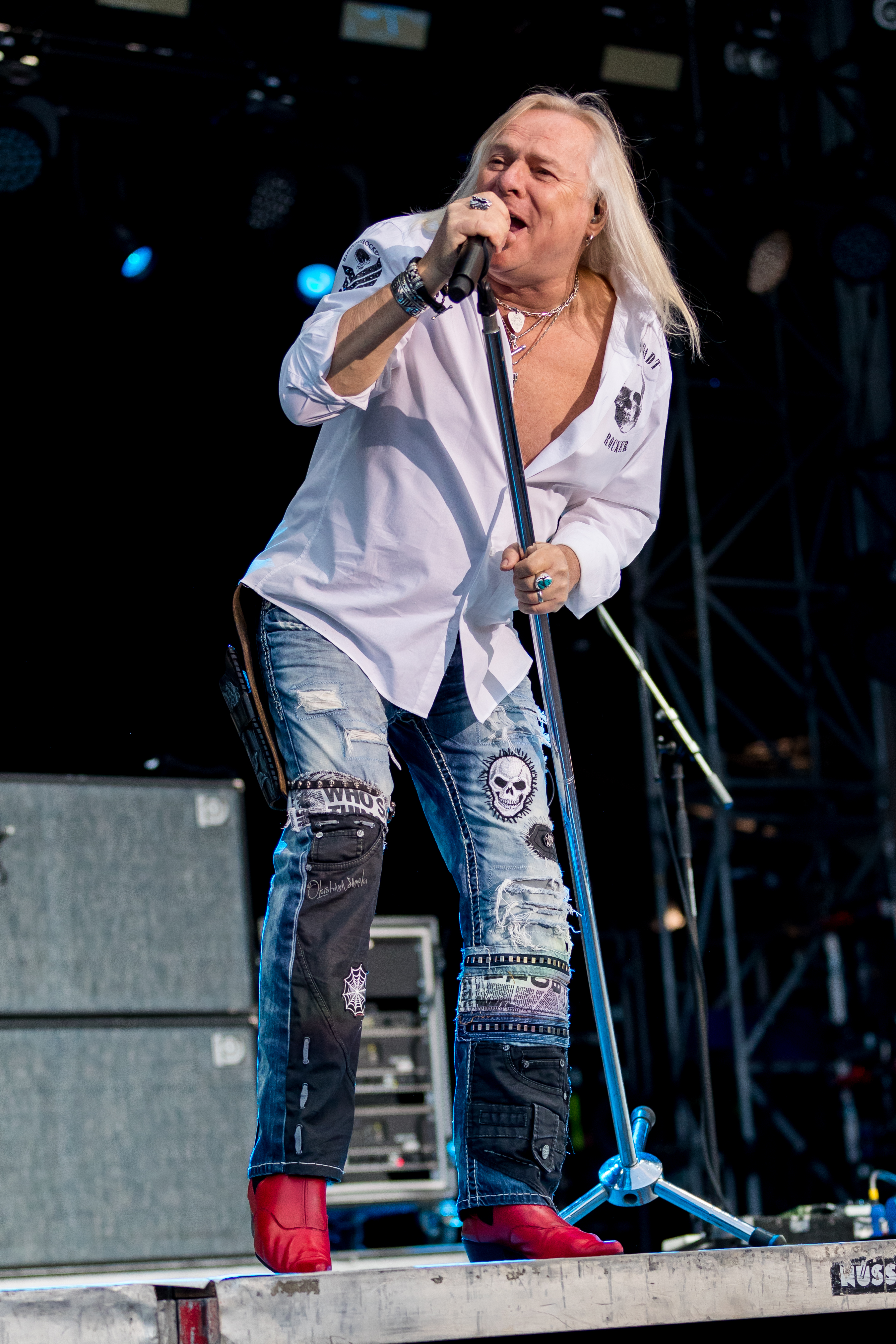 Uriah Heep @ Rock the Ring 2018